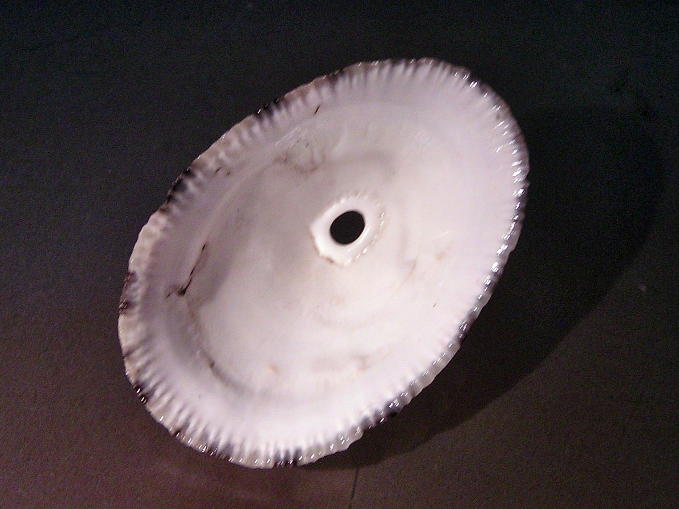 Diodora aspera(Rathke, 1833) (underside), a keyhole limpet from the family Fissurellidae